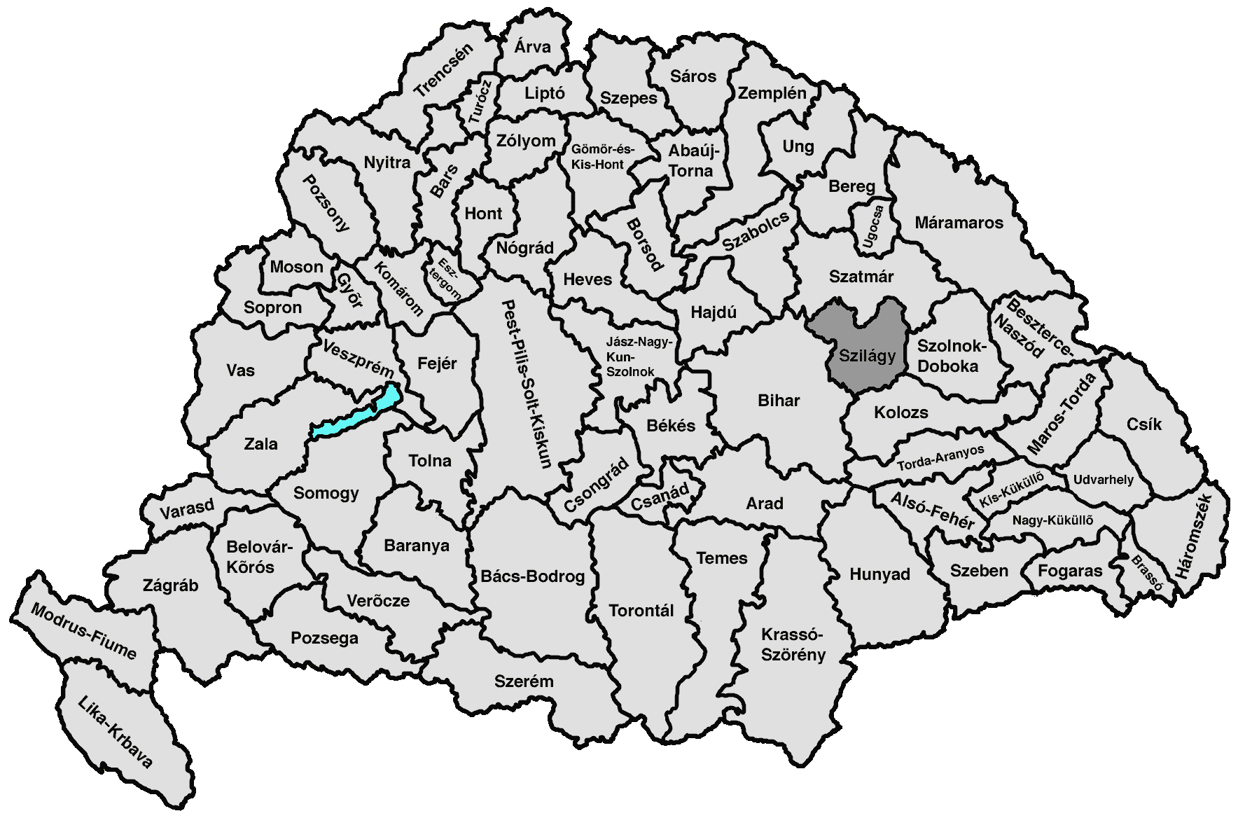 own edit of Image:Zala.png